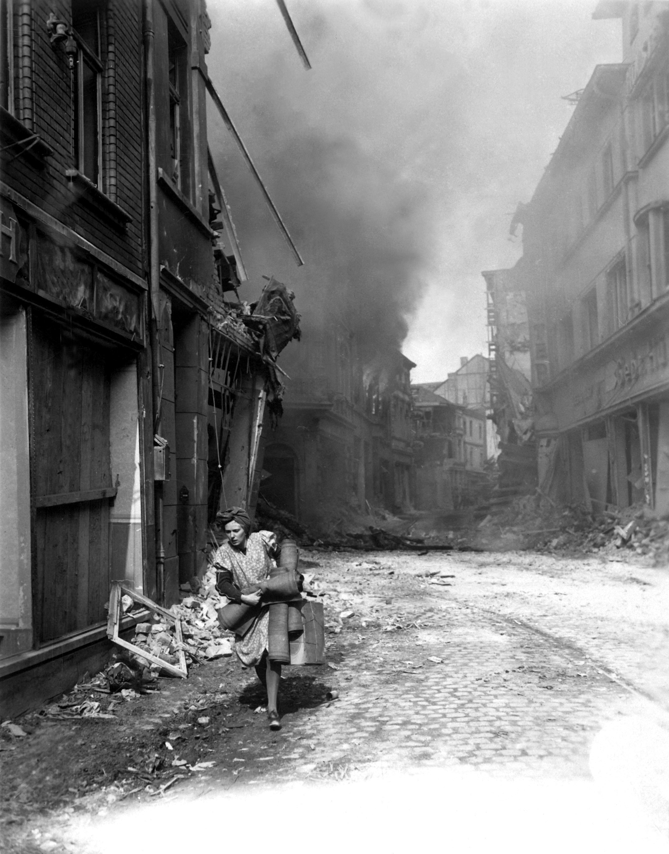 German woman carrying a few possessions runs from burning building in Siegburg, Germany. April 13, 1945.